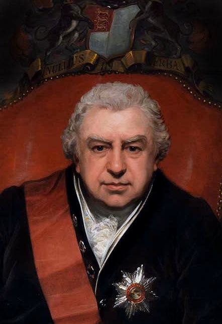 Portrait of Joseph Banks (1743-1820), cropped from official portrait image (see other versions)